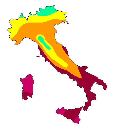 Map of daily sunshine hours in Italy in July